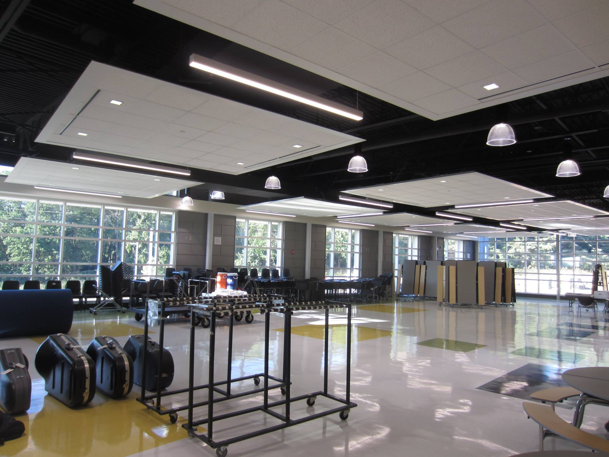 Enfield High School's Cafeteria